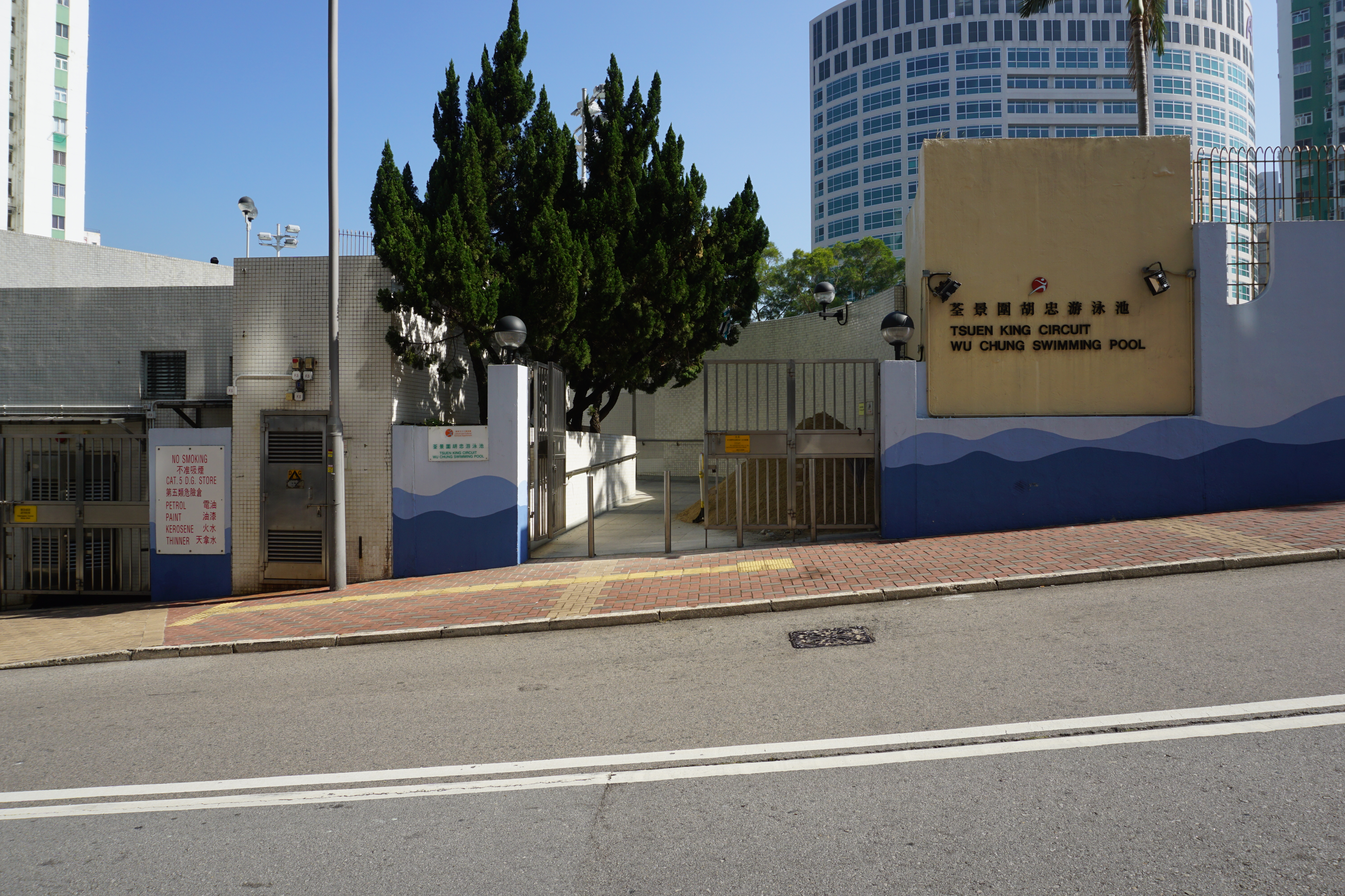 Tsuen King Circuit Wu Chung Swimming Pool in Tsuen Wan, Hong Kong.